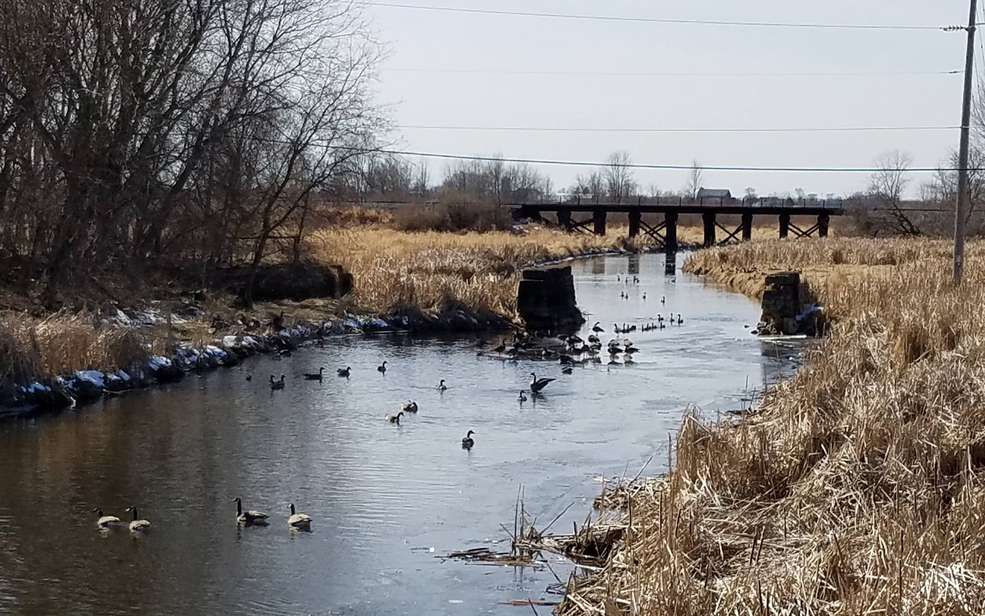 The Black Creek along the northern limits of Black Creek, Wisconsin.